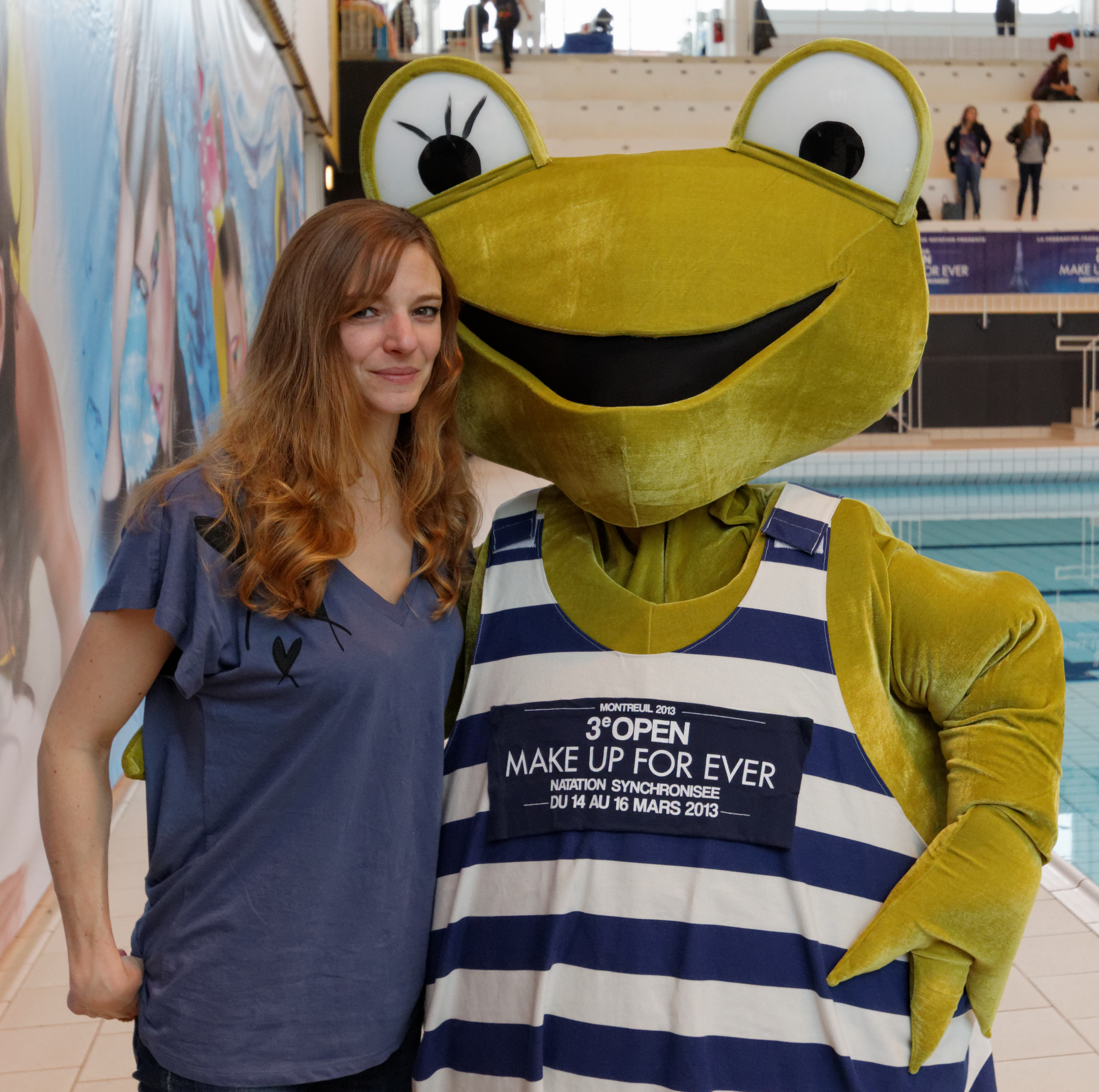 Virginie Dedieu and the mascot of the French Swimming Federation, Open Make Up For Ever.